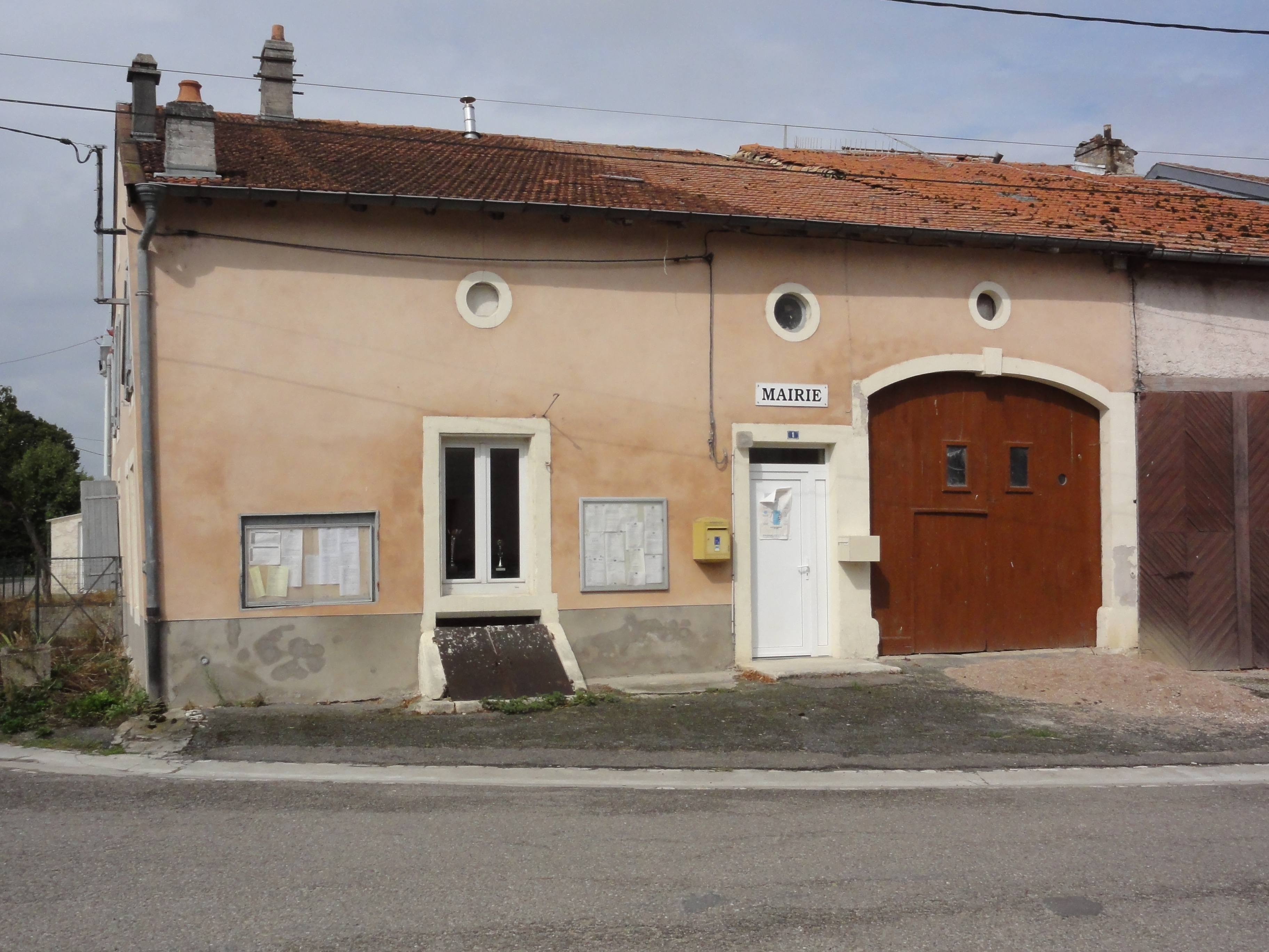 Ugny-sur-Meuse (Meuse) mairie